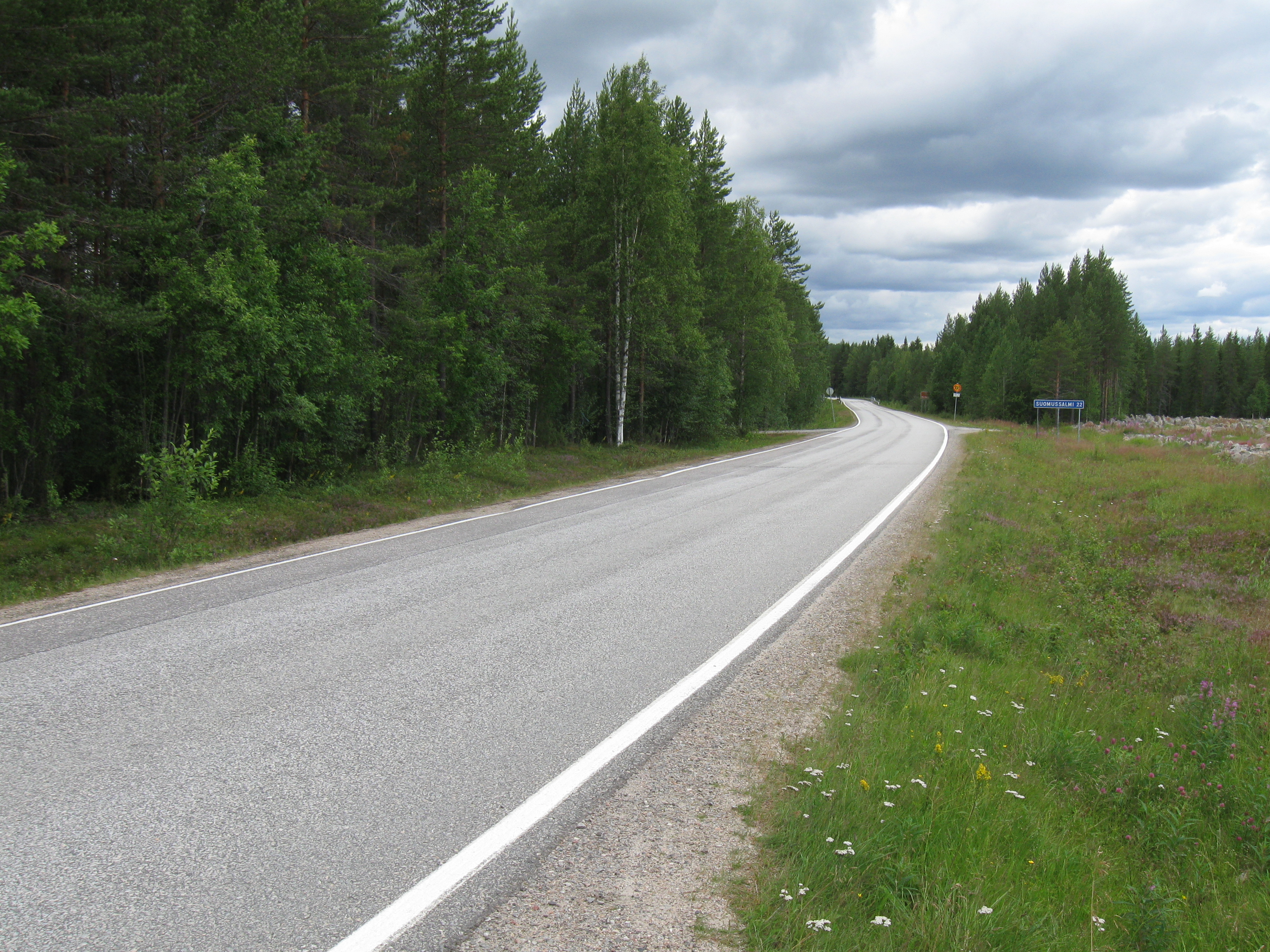 Regional road 912 at Raatteen portti, Suomussalmi, Finland, towards Suomussalmi in North-West.